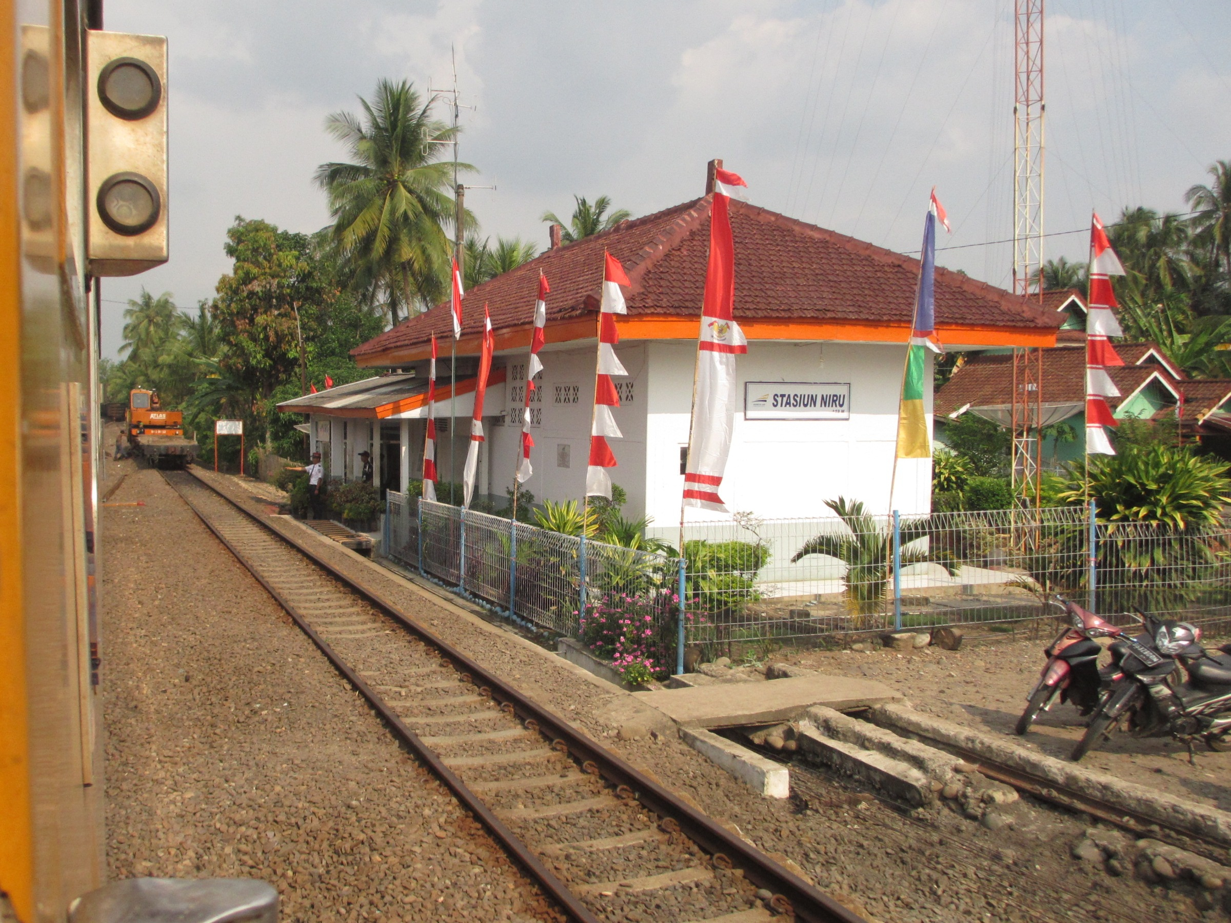 Niru Railway Station.